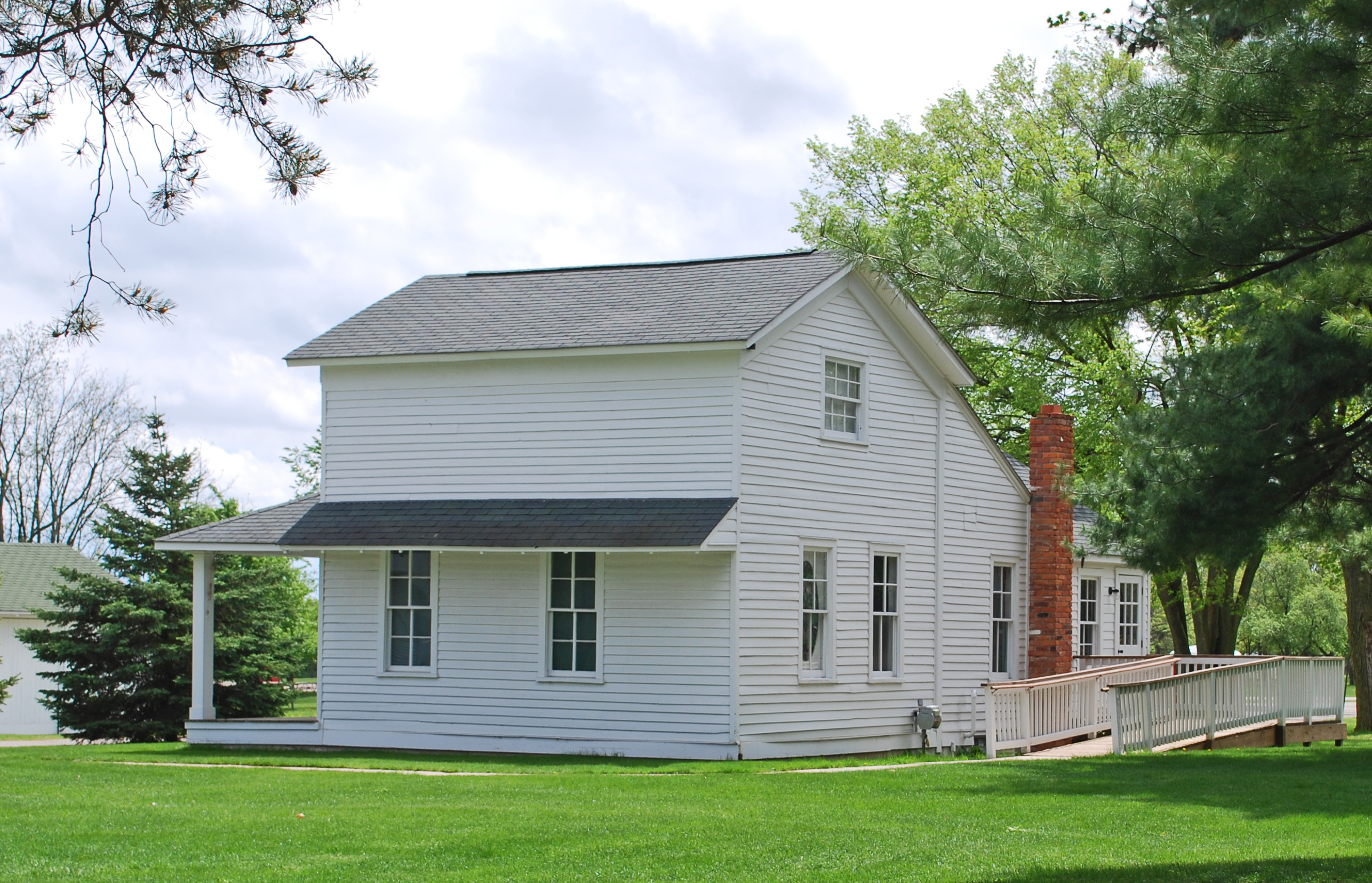 Farmhand's House, possibly the original Simmons cabin (c. 1826) — in Greenmead Village Historic Park. An open-air museum located in Livonia, Wayne County, southeastern Michigan. A Michigan State Historic Site, and on the National Register of Historic Places.